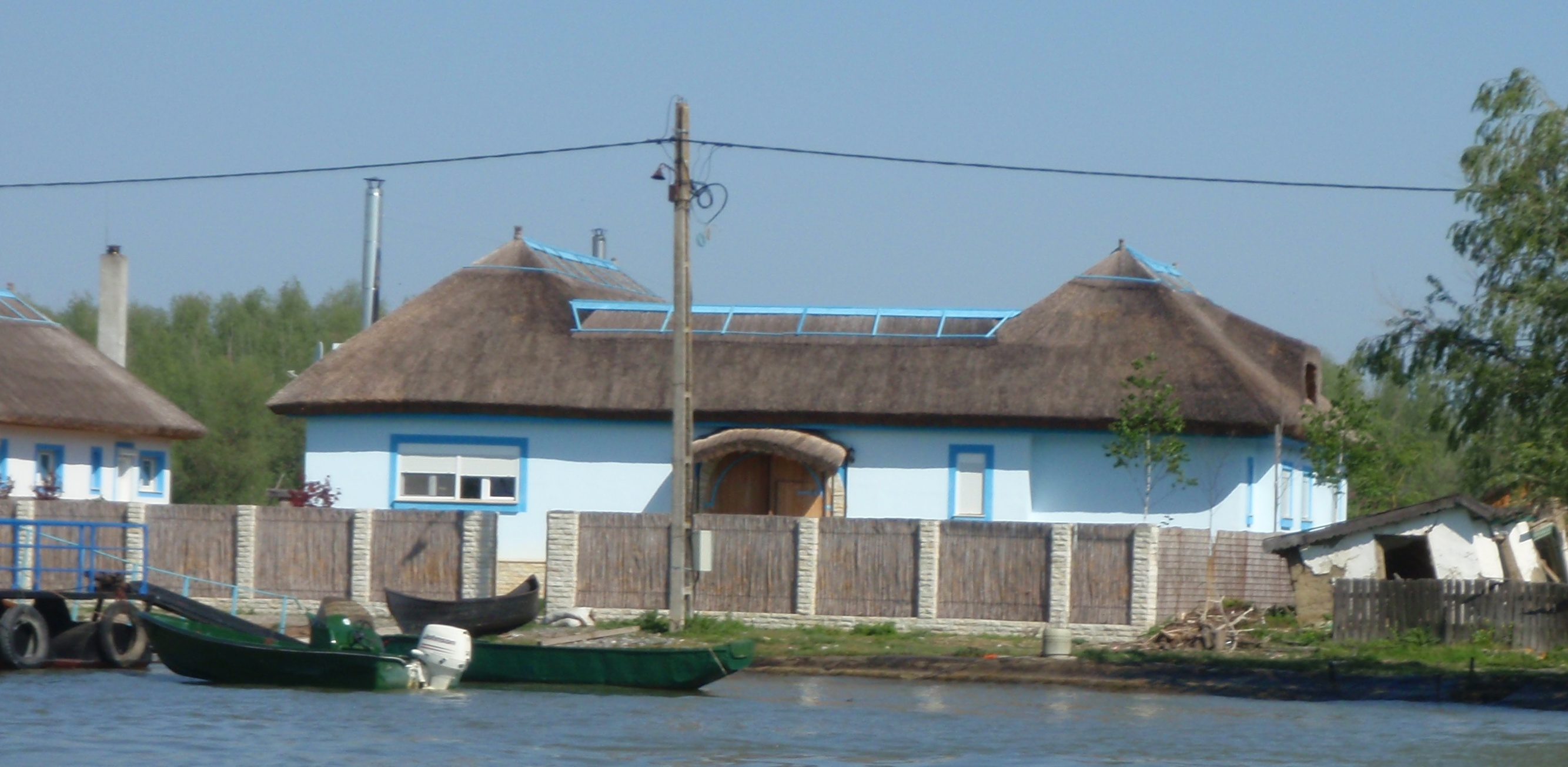 Lippovanistyle house i the village of Partizani, east of Tulcea in the Danube Delta.